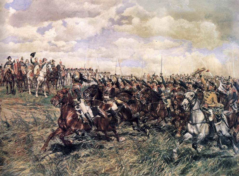 Napoleon saluting the 12th Curassier regiment